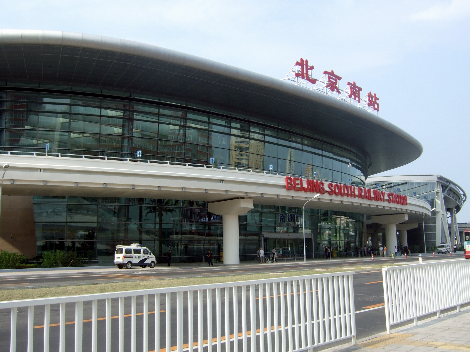 Beijing South Railway Station